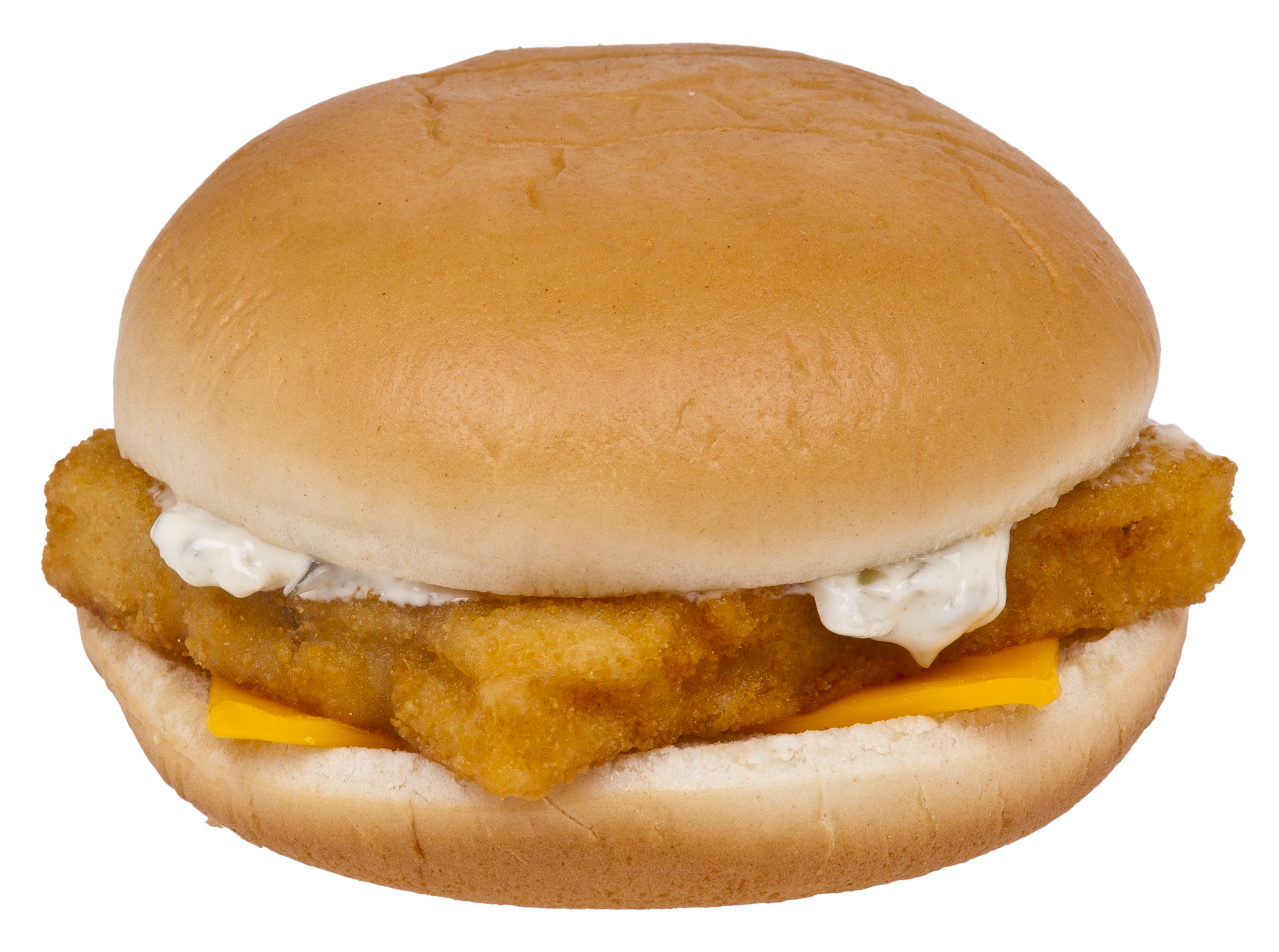 A McDonald's Filet-O-Fish sandwich, bought from a McDonald's in America.